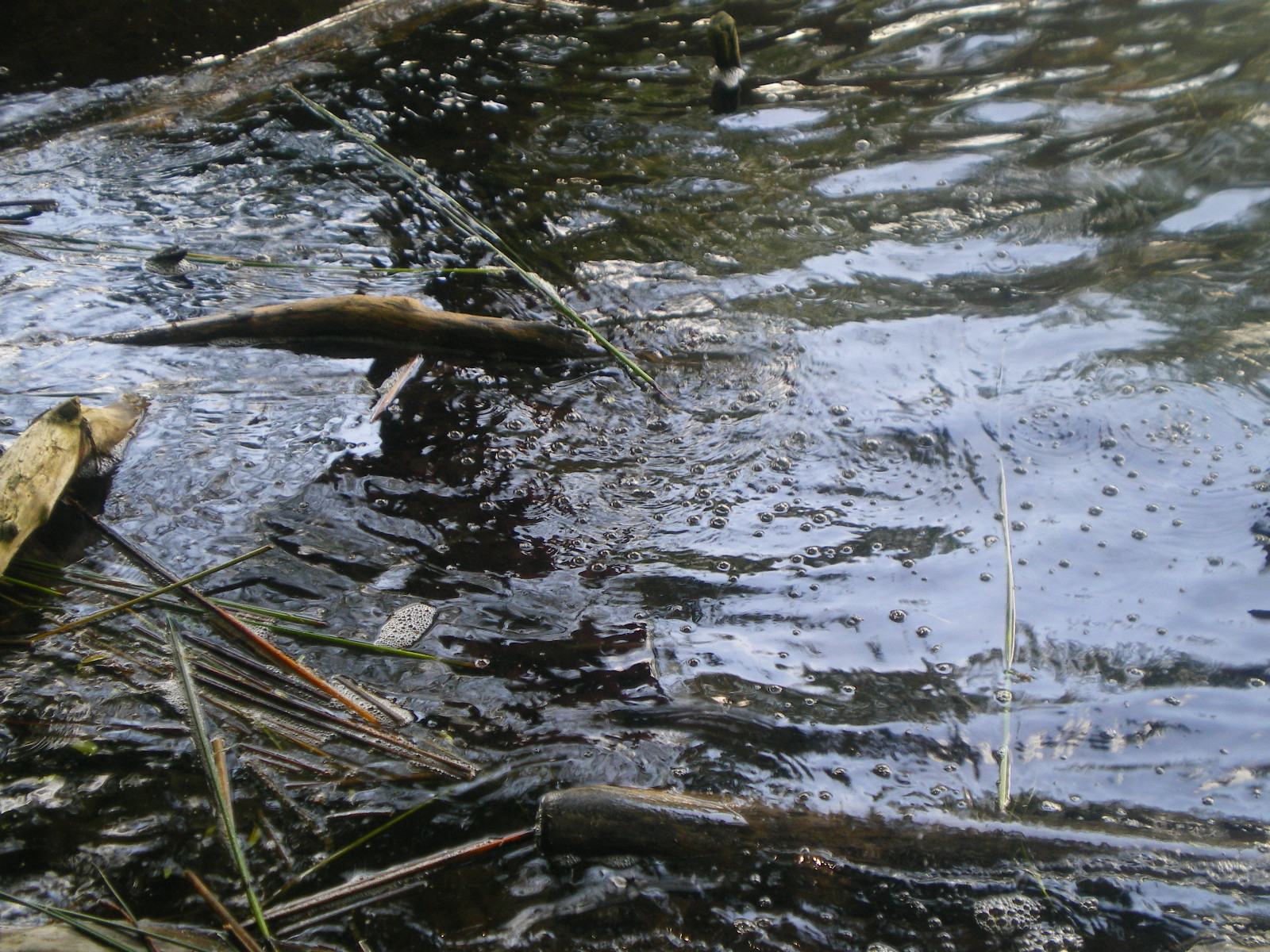 Carbon dioxide escapes from the volcano crater, Laacher See in Rhineland-Palatinate